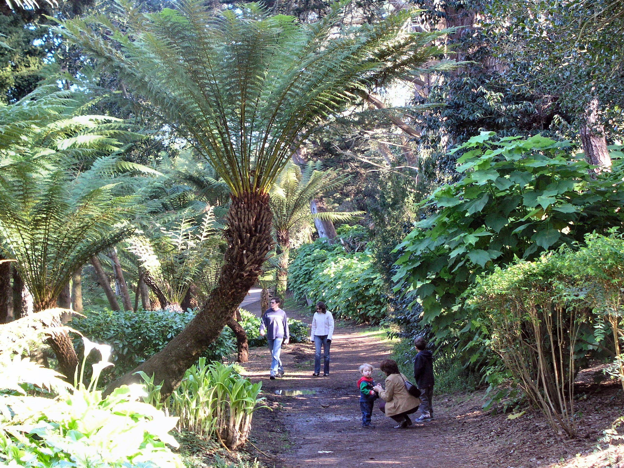 Tree ferns Golden Gate Park, San Francisco